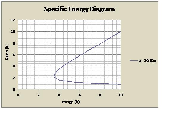 Fluid mechanic